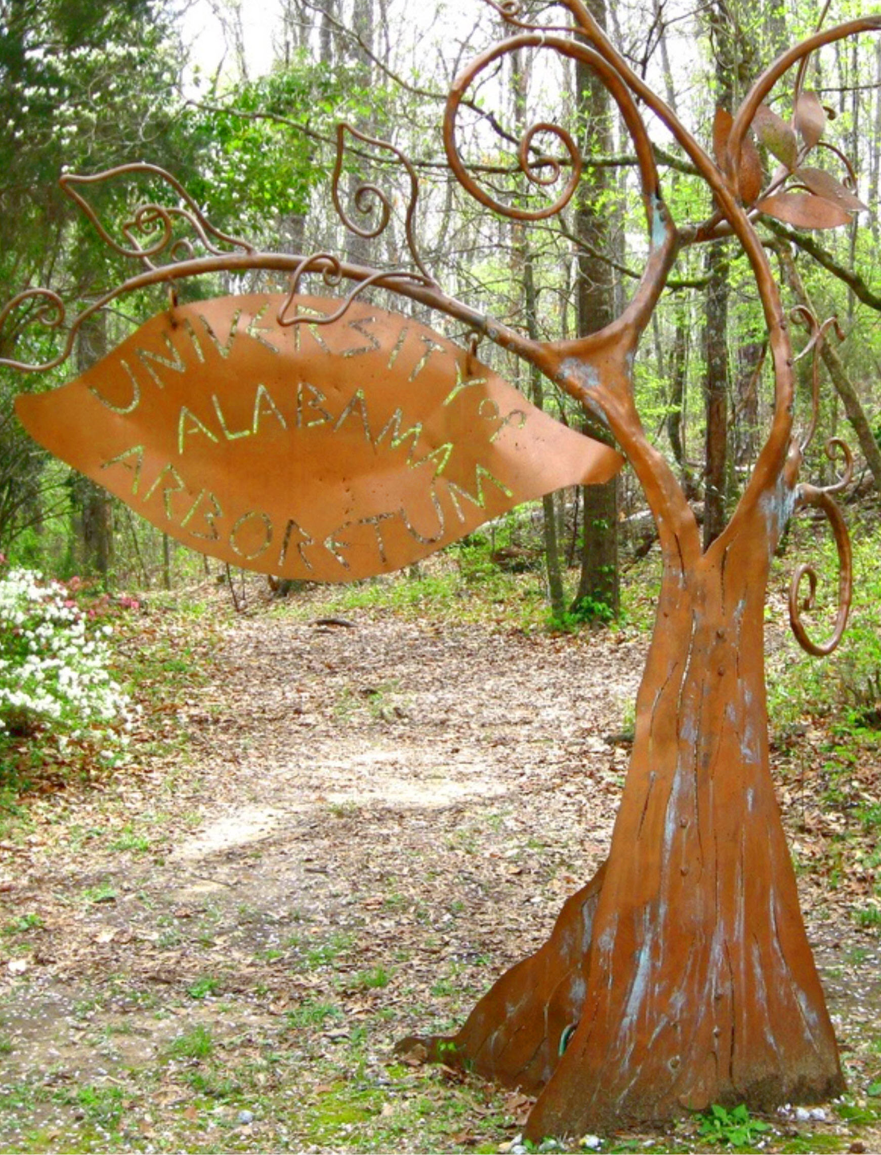 Copper "tree" sign at the University of Alabama Arboretum.